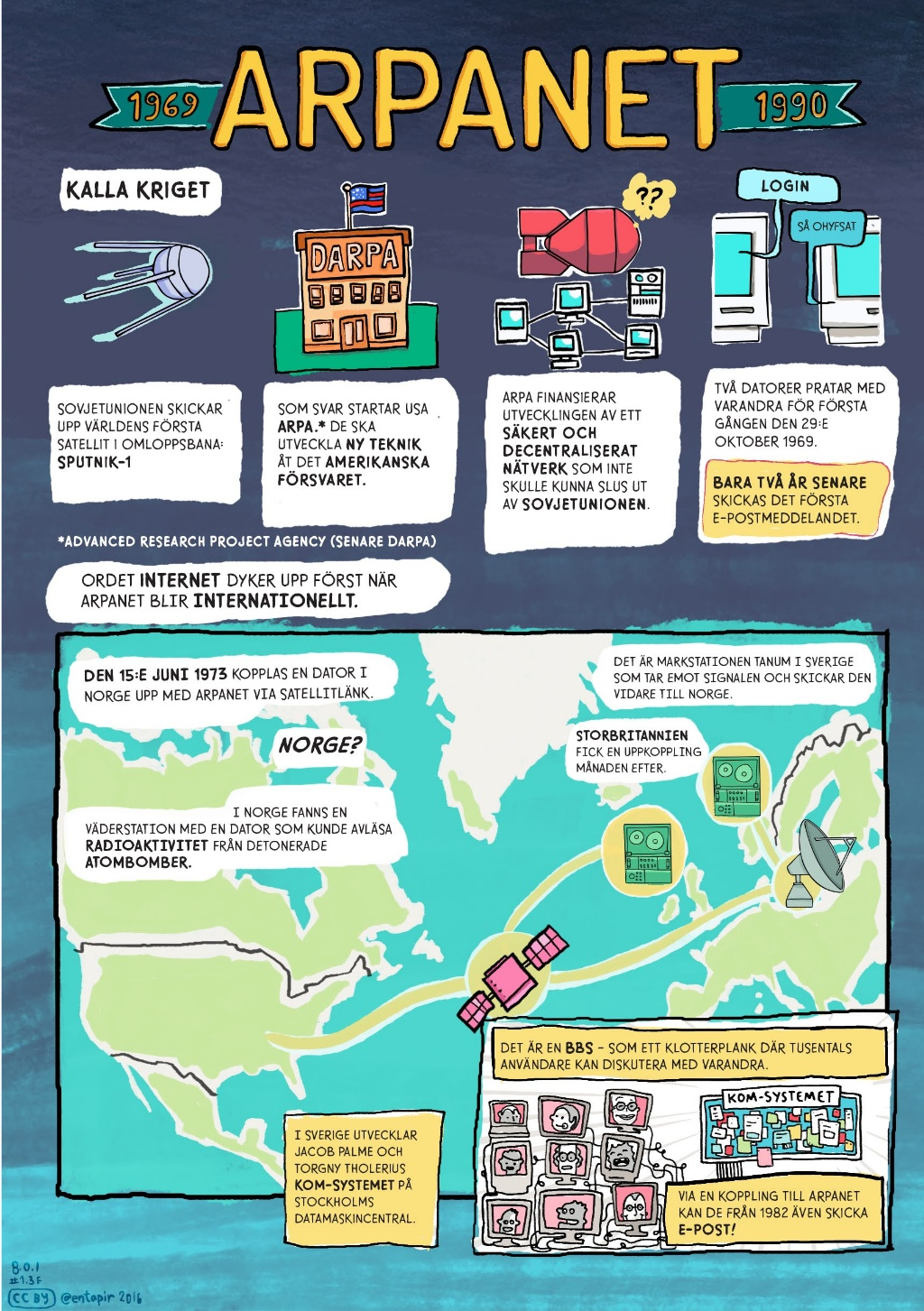 The illustrated history of Internet. A comic created for children and youths illustrated by Jesper Wallerborg for Internetmuseum.